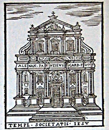 Il Gesù by Girolamo Francino (1588)